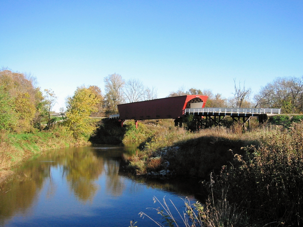 Roseman Bridge in Madison County, Iowa, United States.